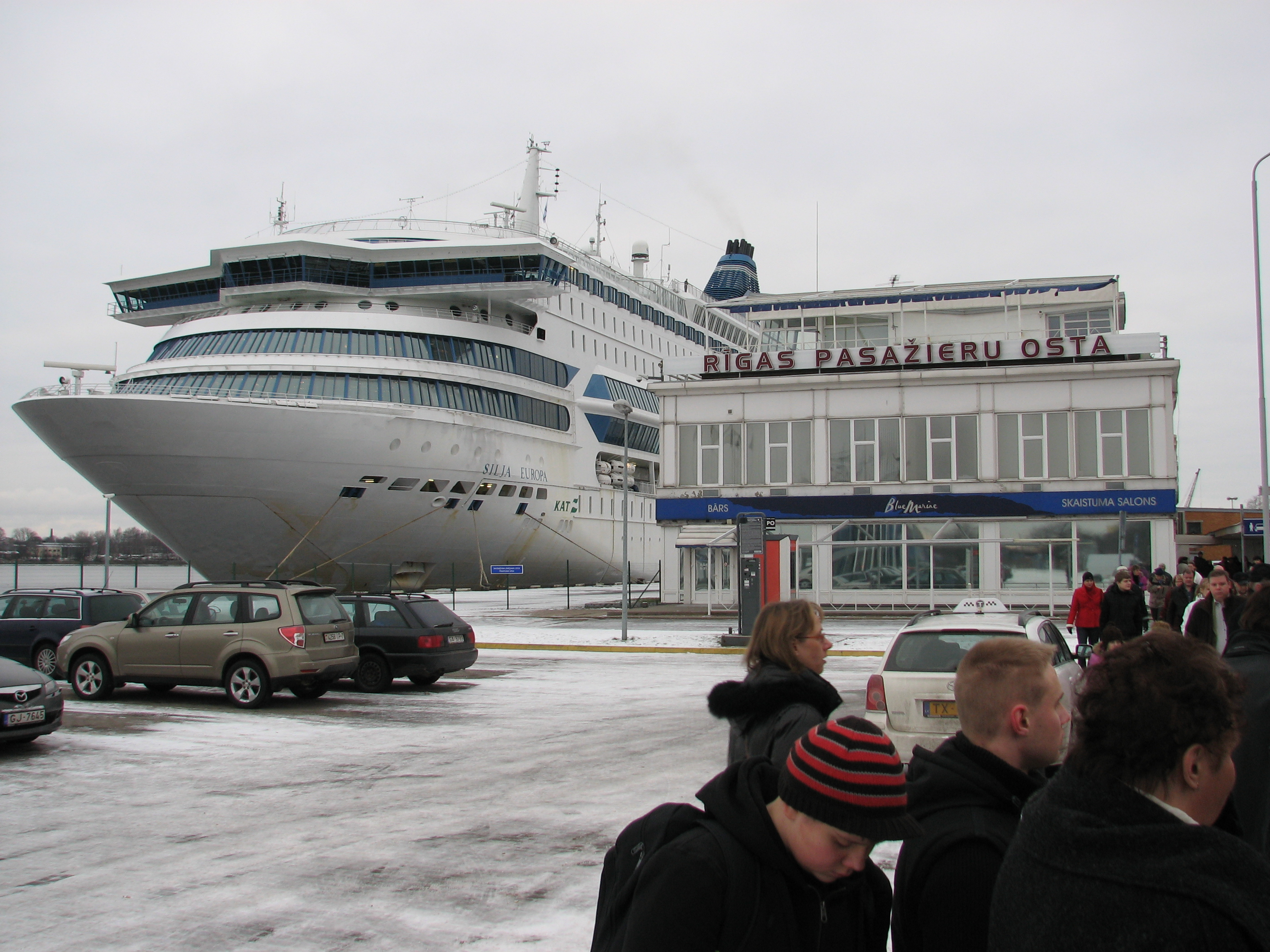 The Silja Europa parked at Riga harbour.